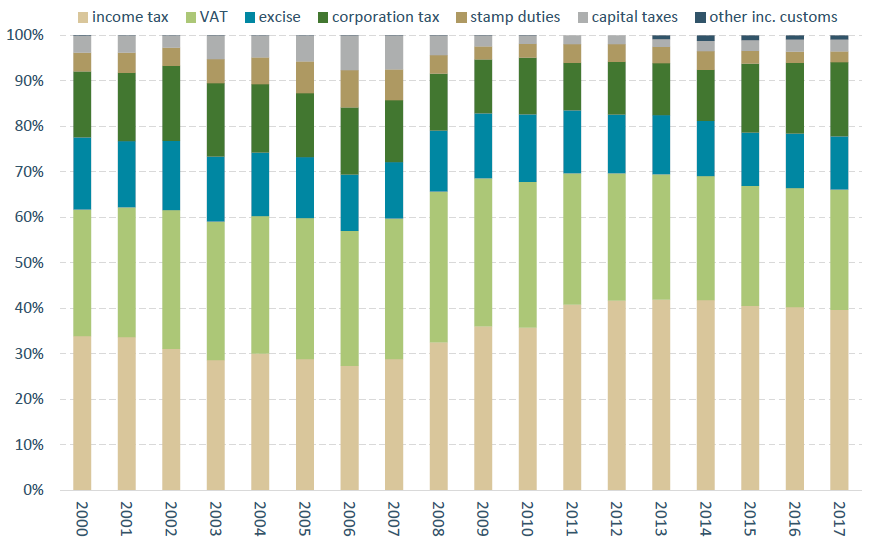 Recreation of the Department of Finance chart on the distribution of Irish exchequer tax revenues